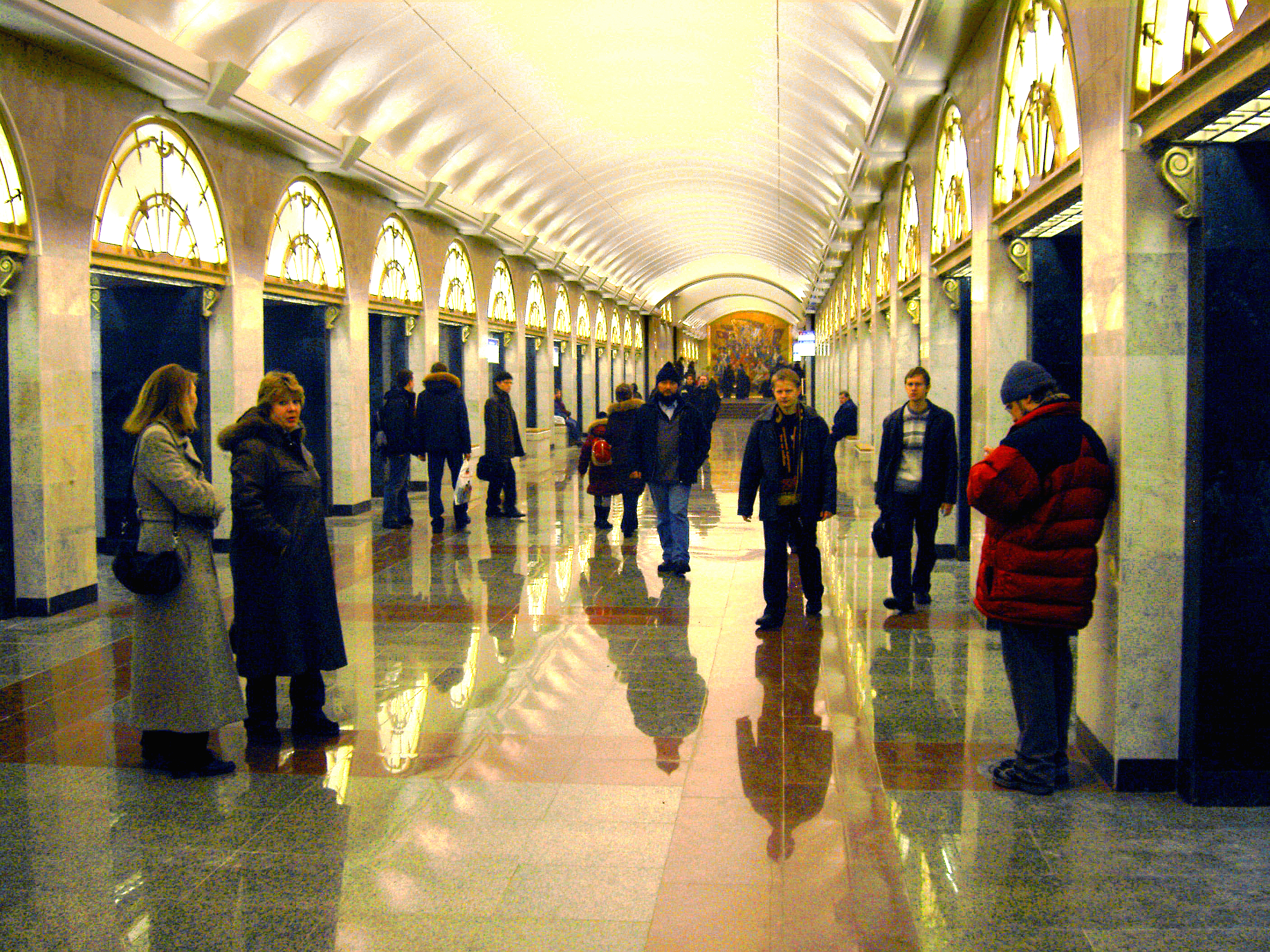 Metro station «Zvenigorodskaya»